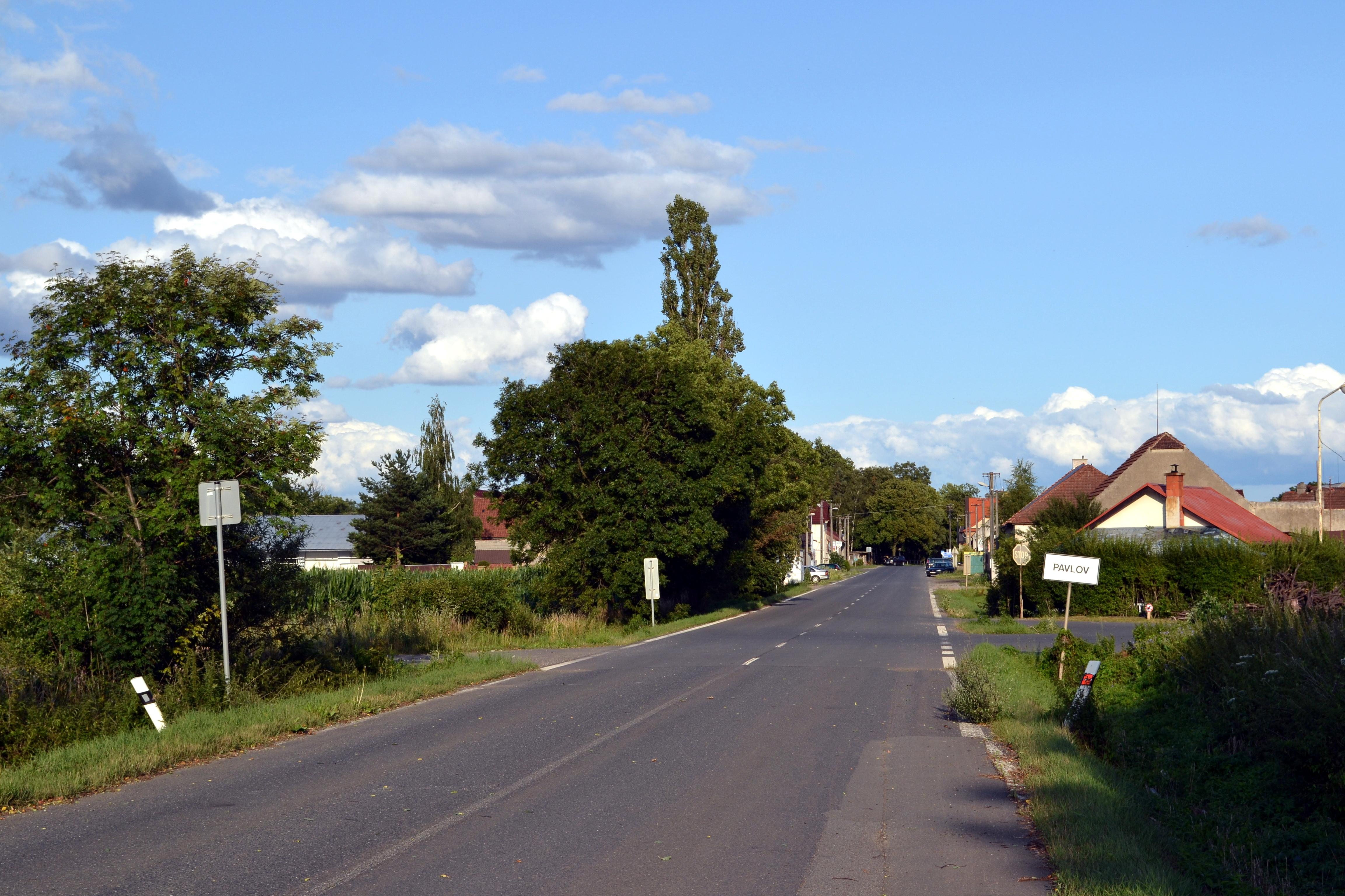 Karlovarská street in Pavlov, Central Bohemian Region, Czech Republic.